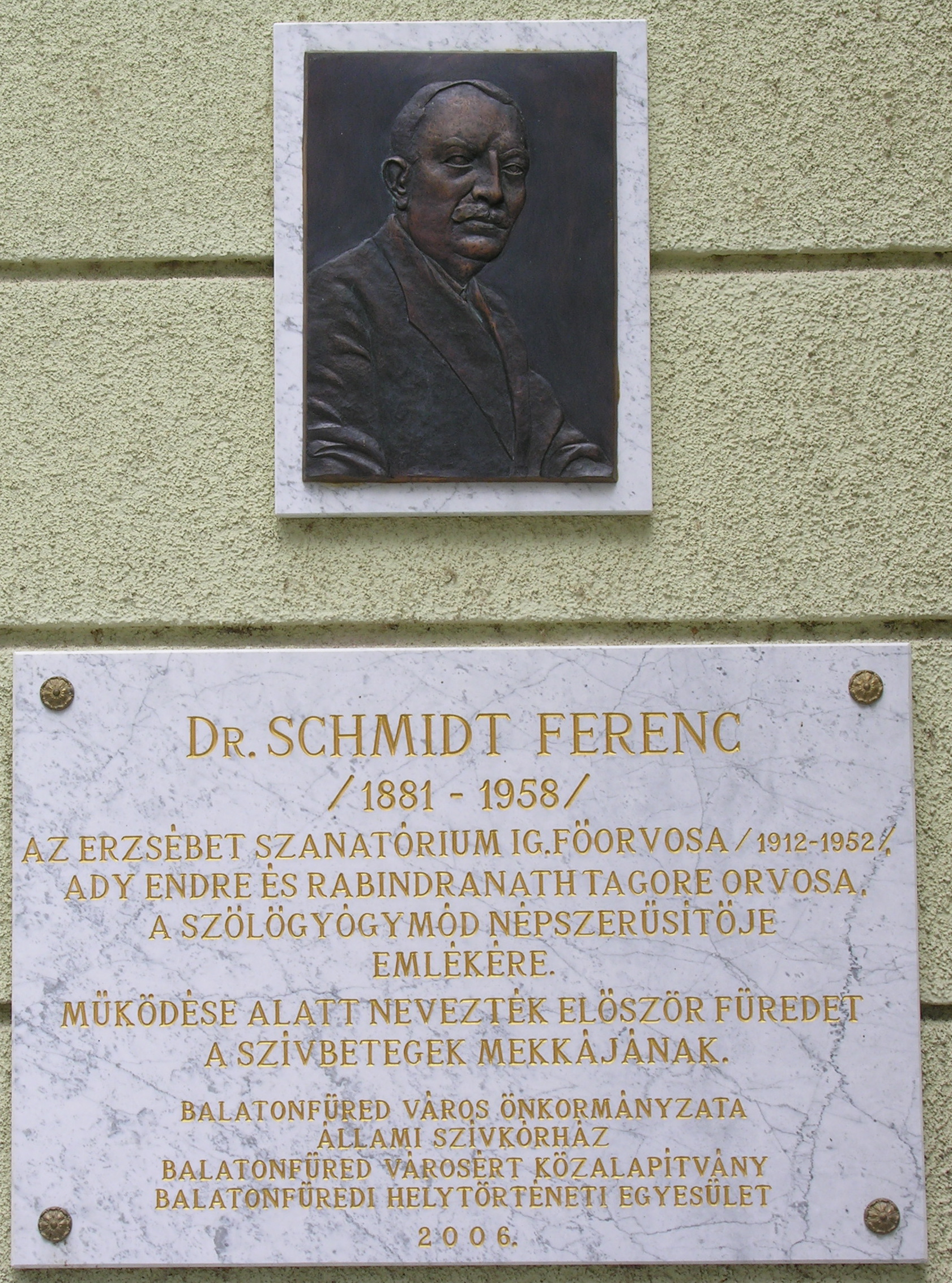 Commemorative plaque of the physician Ferenc Schmidt in Balatonfüred, Gyógy Square No 2